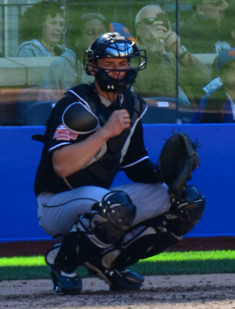 Rob Brantly